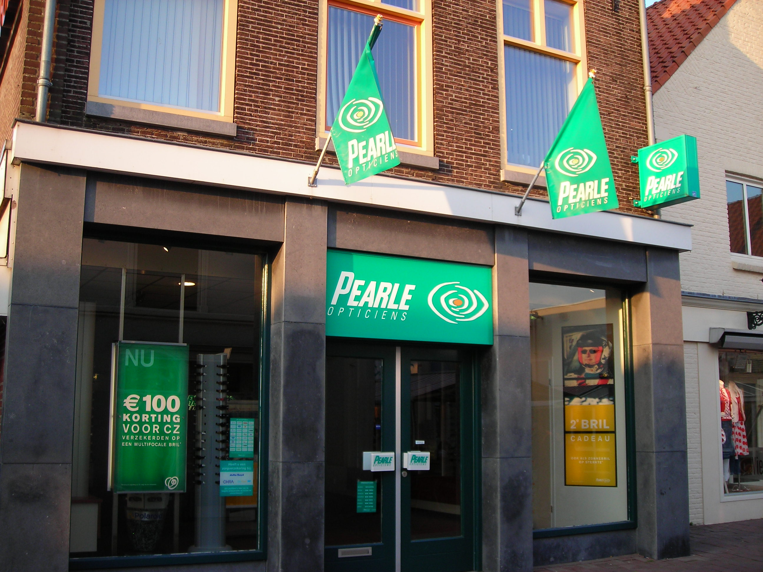 An optician's store in Boxmeer